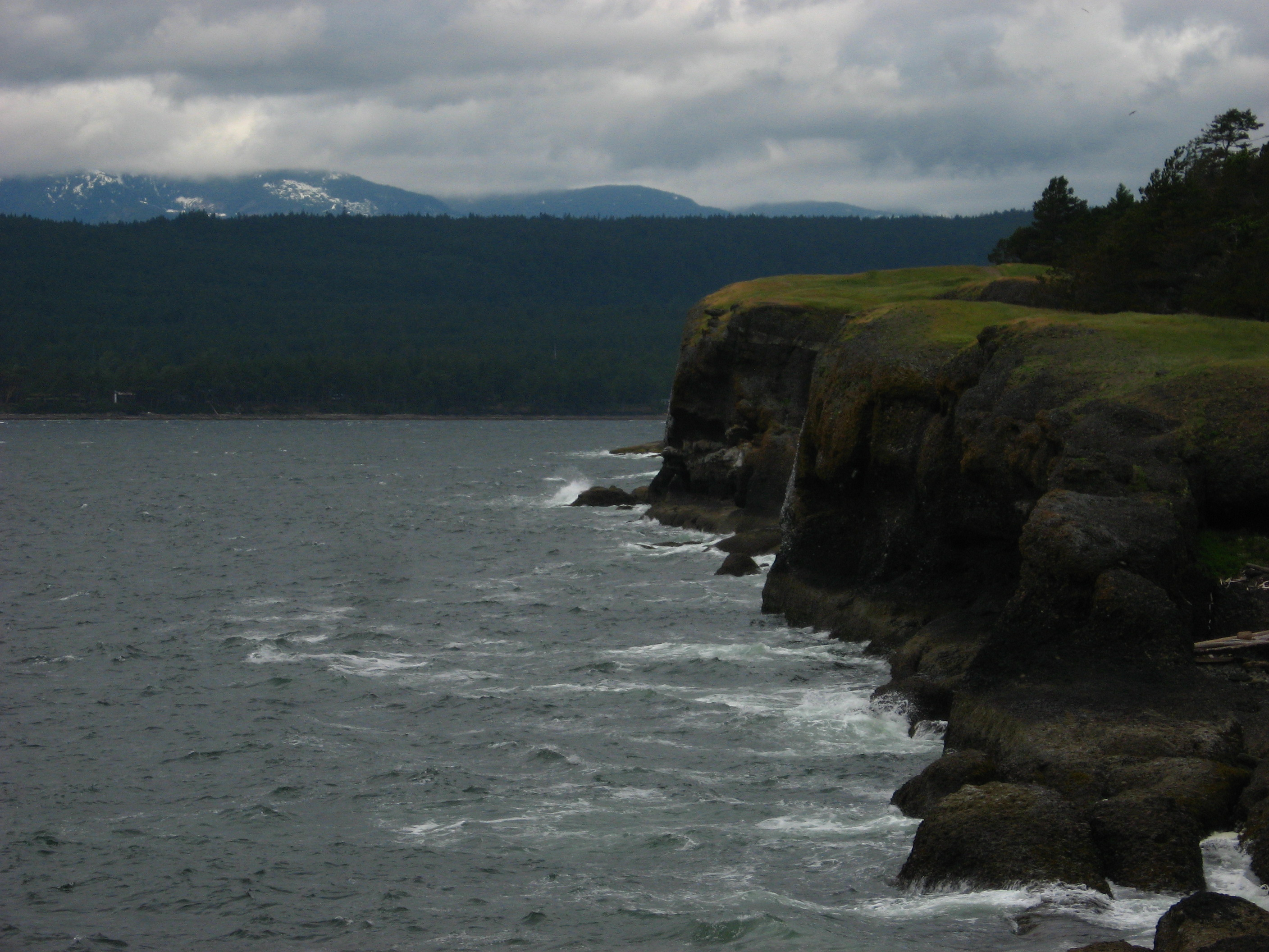 The cliffs at Helliwell Provincial Park, Hornby Island, BC